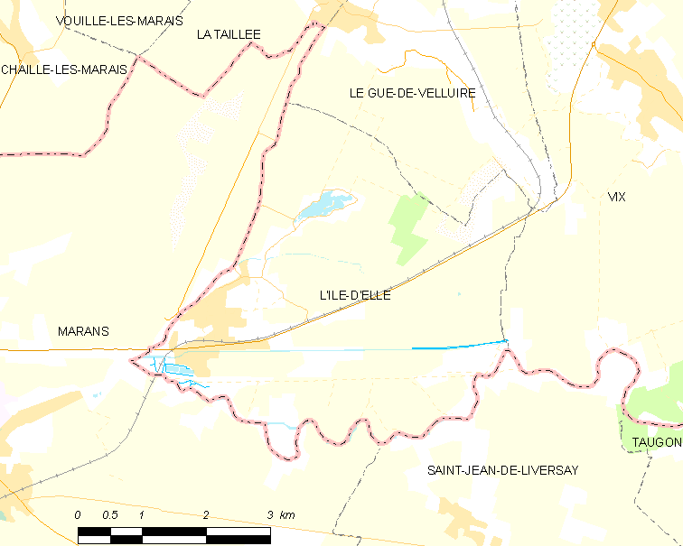 Map of French municipality L'Île-d'Elle